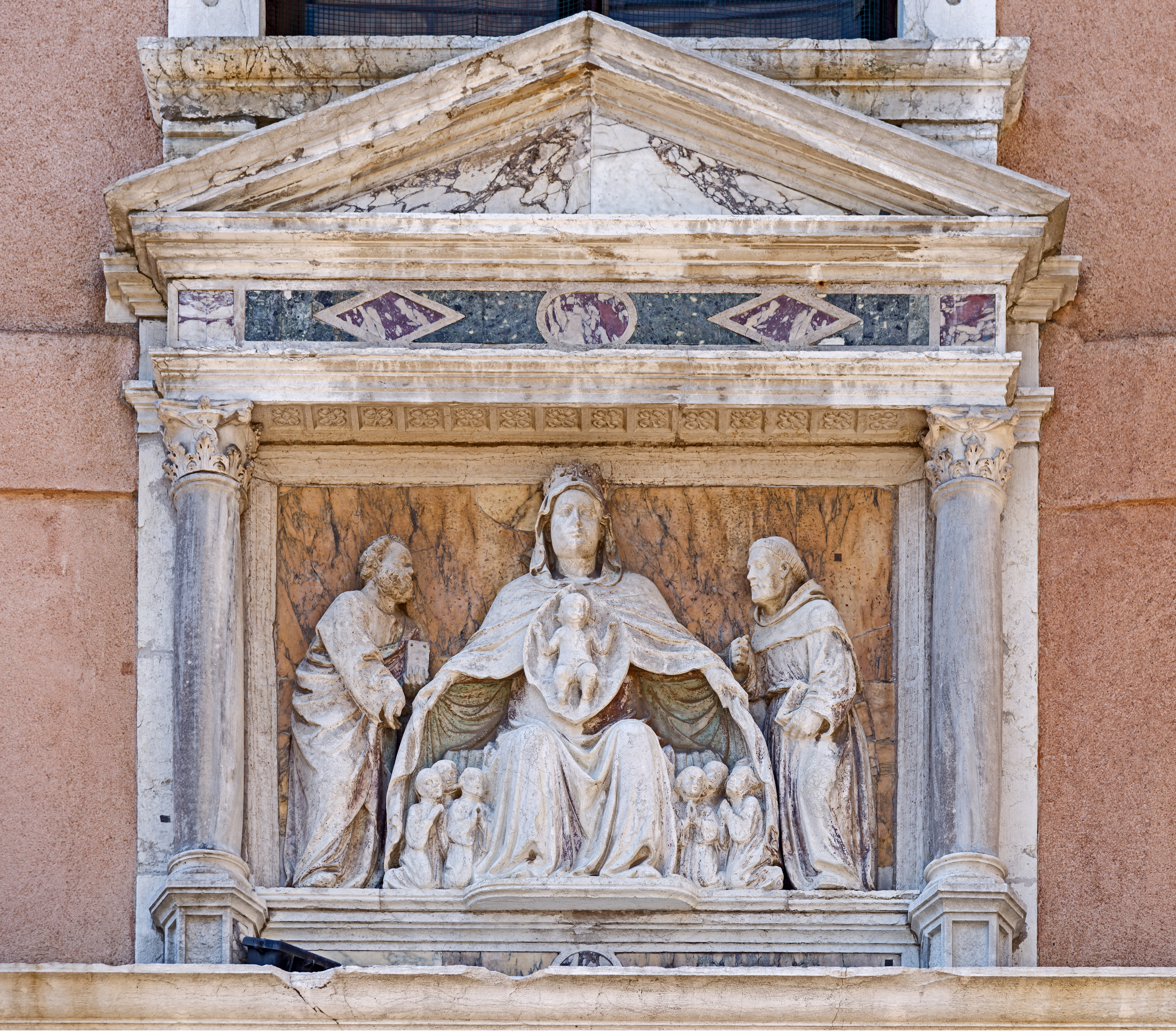 Madonna dell'Orto, Venice, Madonna della Misericordia sec. XV